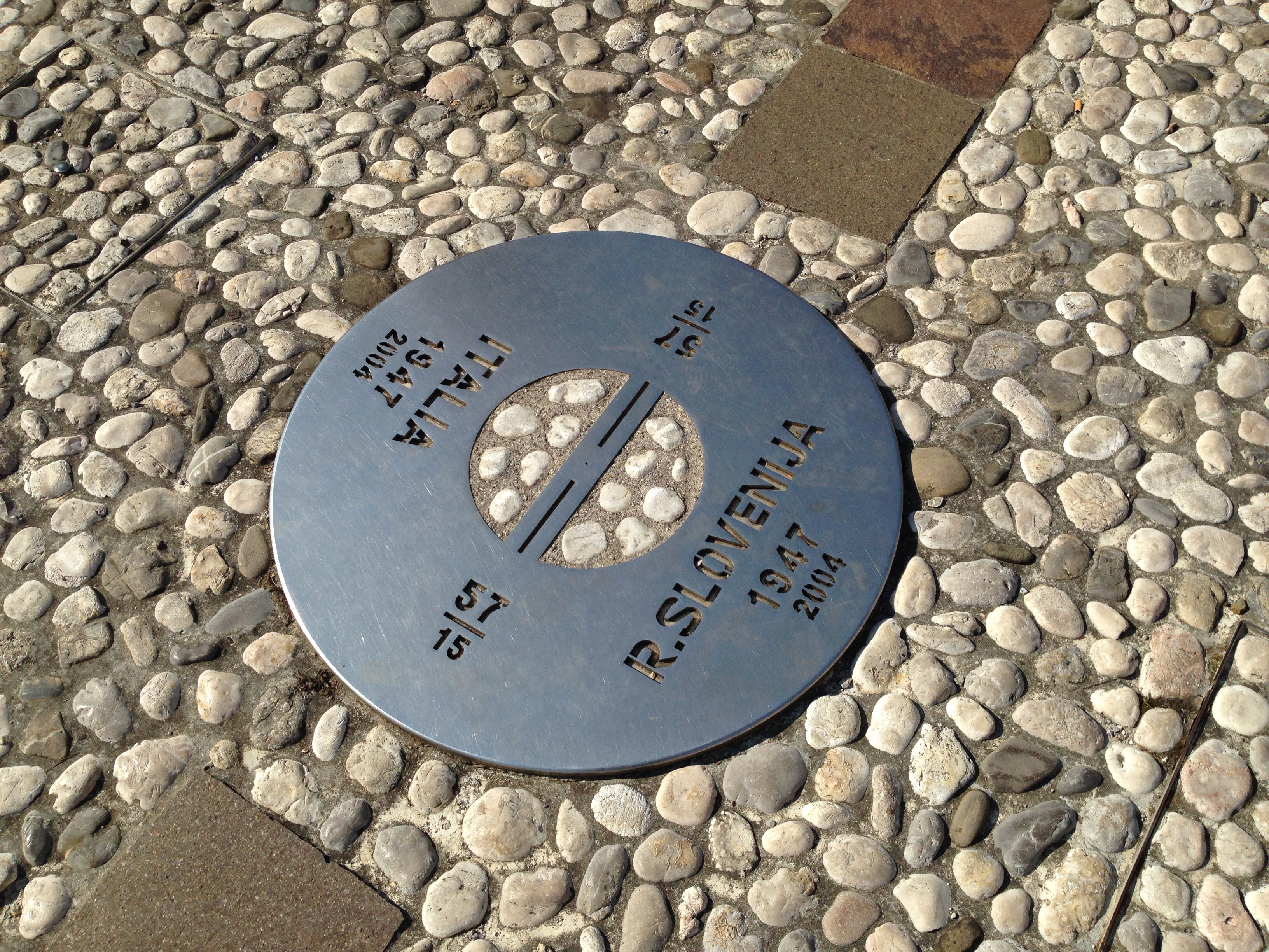 GCERC - the Slovenia/Italy border